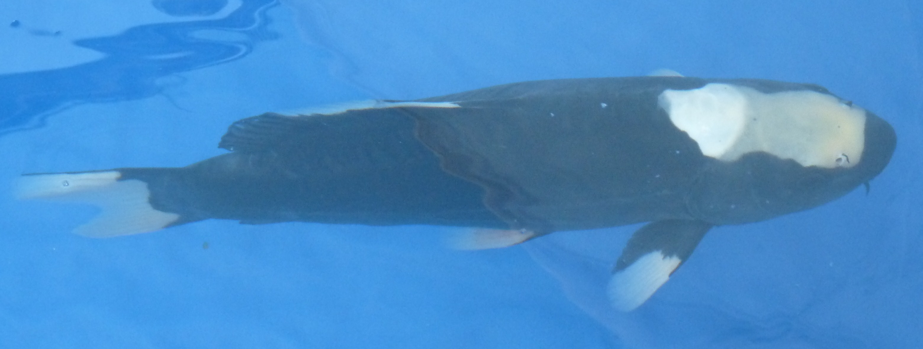 Hagashiro (Koi)